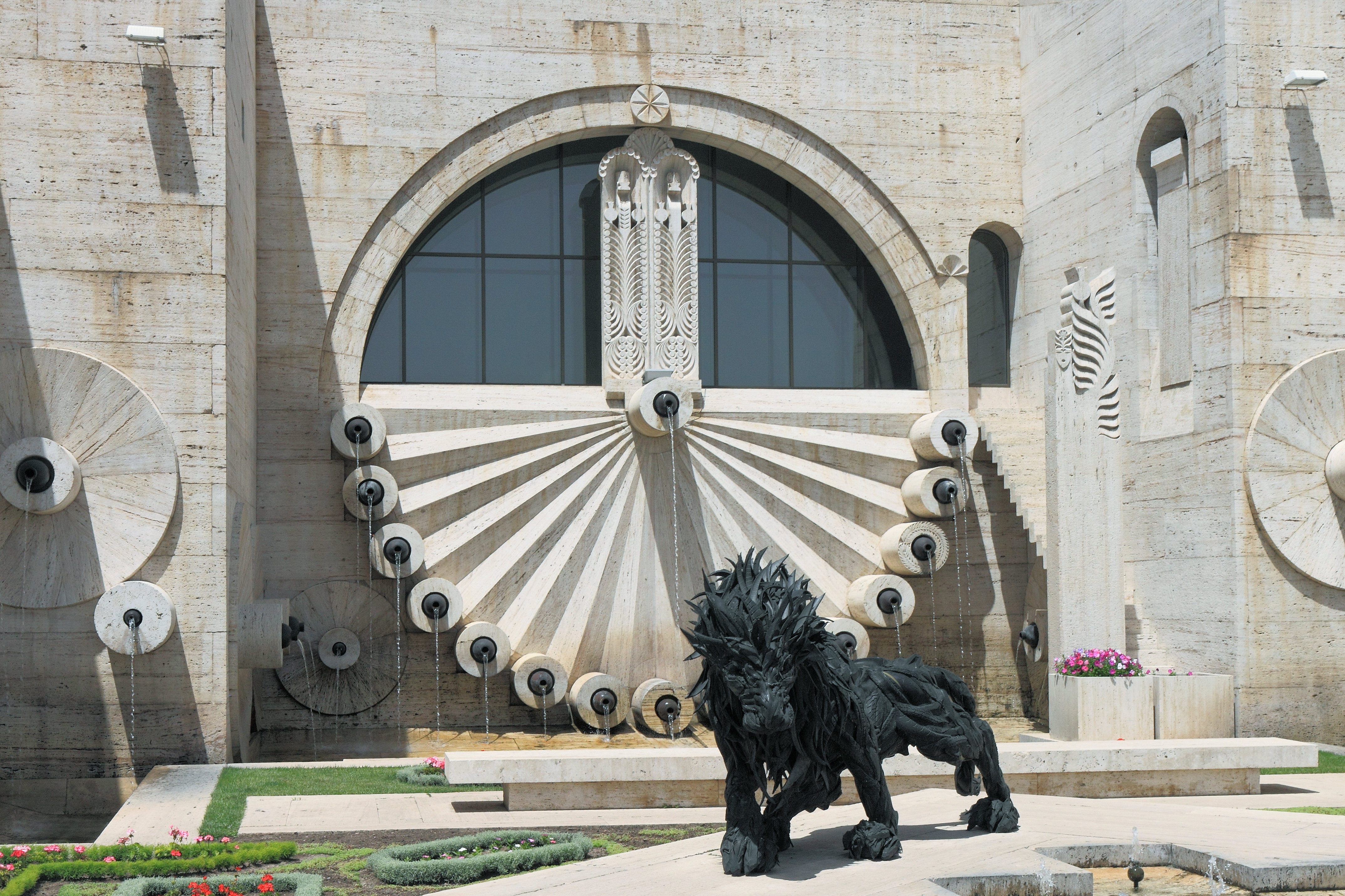 The third level. Cascade. Yerevan, Armenia.